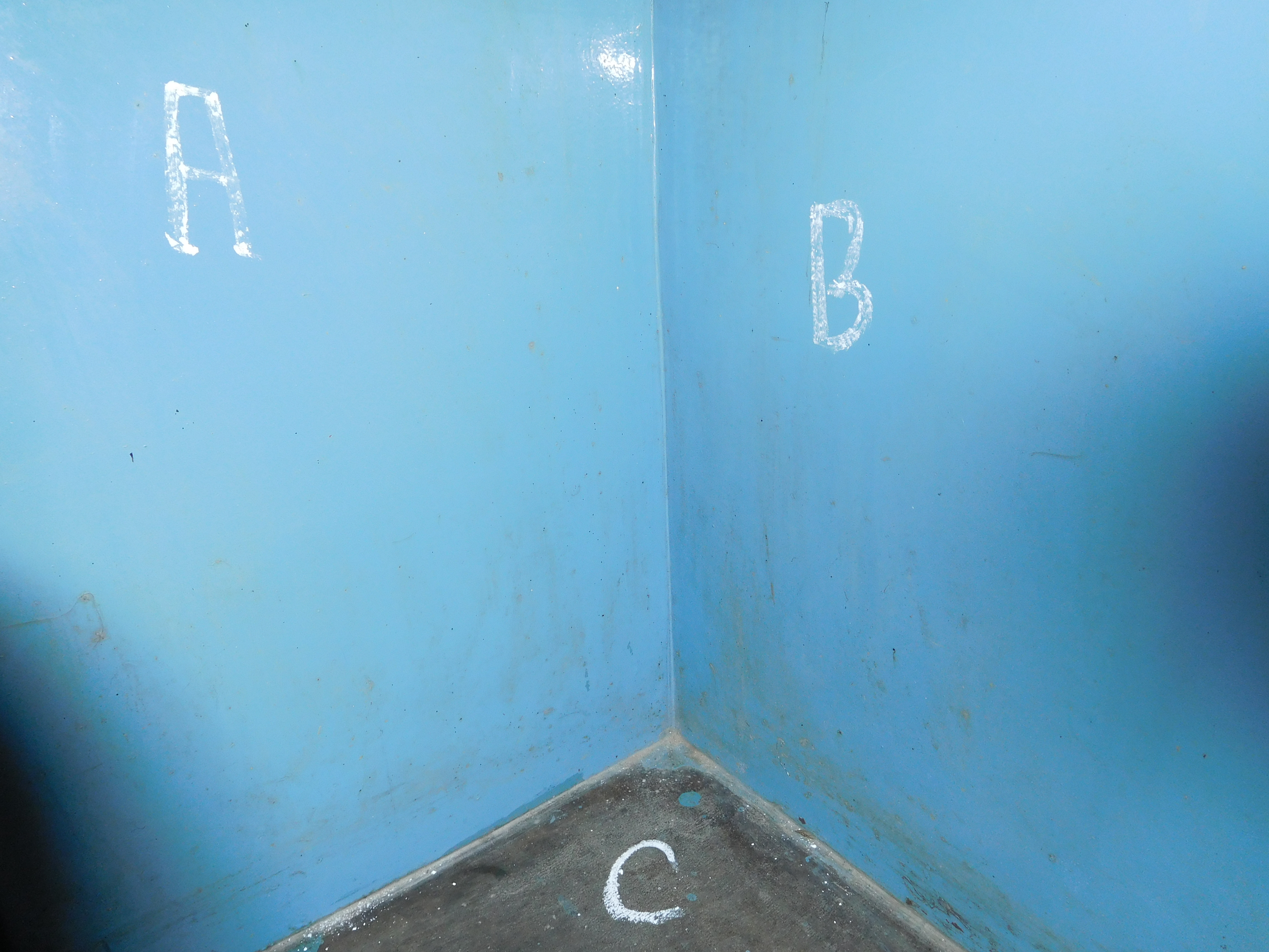 Dihedral angle: angle between bisecting plane A & plane B and perpendicular on third plane C dihedral angle.